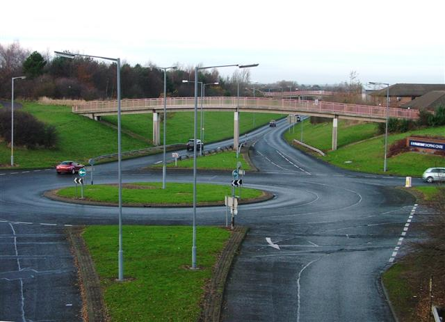 Traffic Island, Coulby Newham.